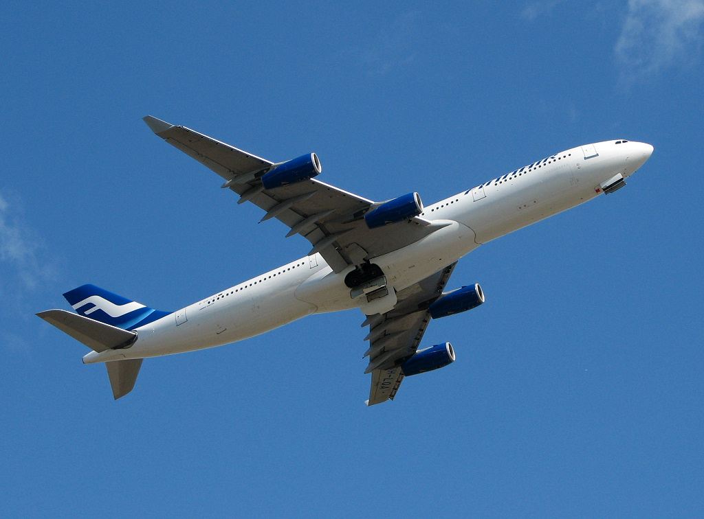 Finnair Airbus A340